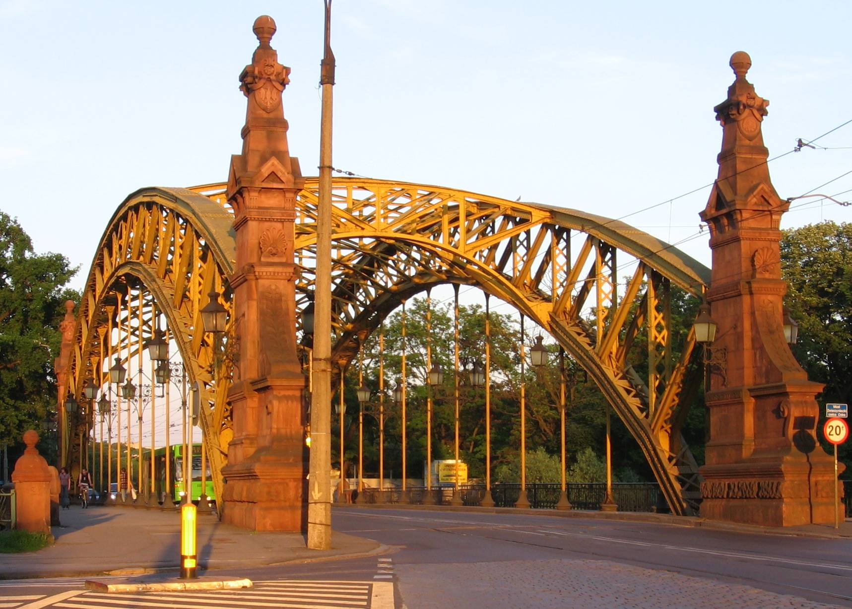 Wroclaw, Poland: Most Zwierzyniecki - Zwierzyniecki Bridge (Zoo-Bridge) over the Odra River, looking in the opposite direction of the city center.